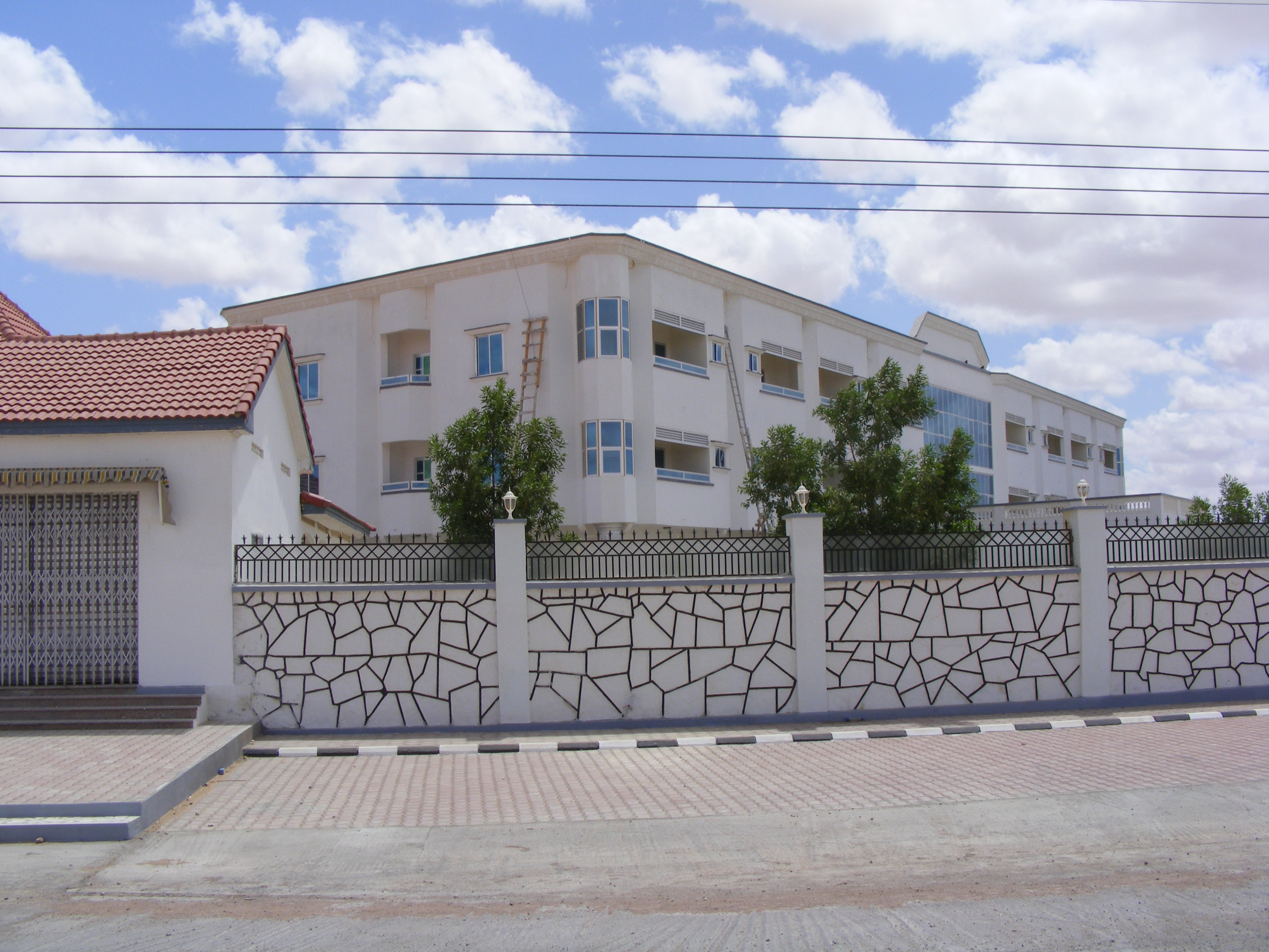 A new hotel in Garowe, Somalia.